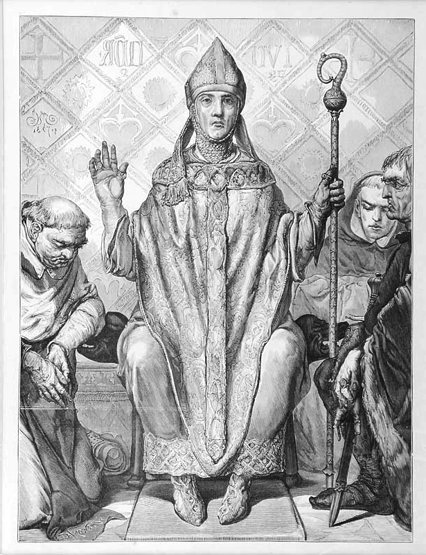 Iwo Odrowąż